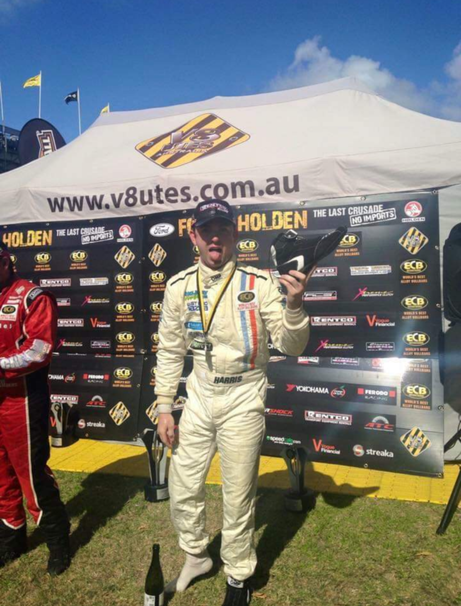 The Shoey